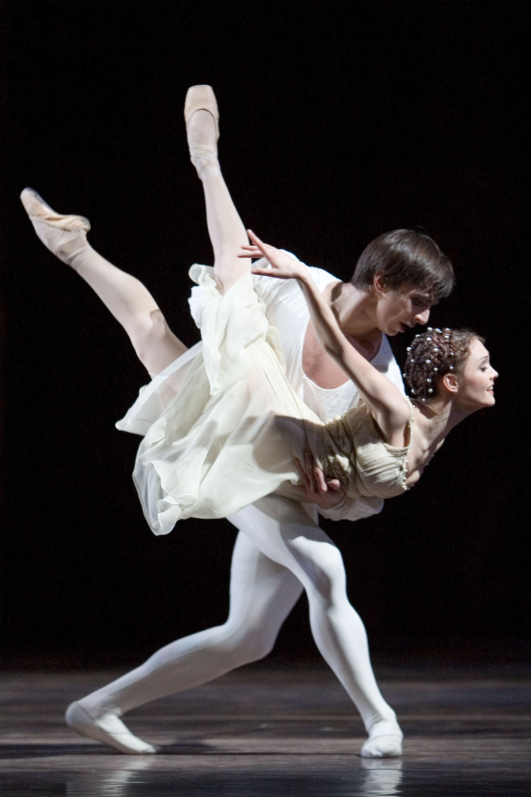 Jurgita Dronina and Olaf Kollmannsperger in 2007 a Romeo and Juliet production at Royal Swedish Opera